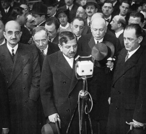 Pierre Laval, as Minister of Foreign Affairs, on his return from Moscow in 1935.